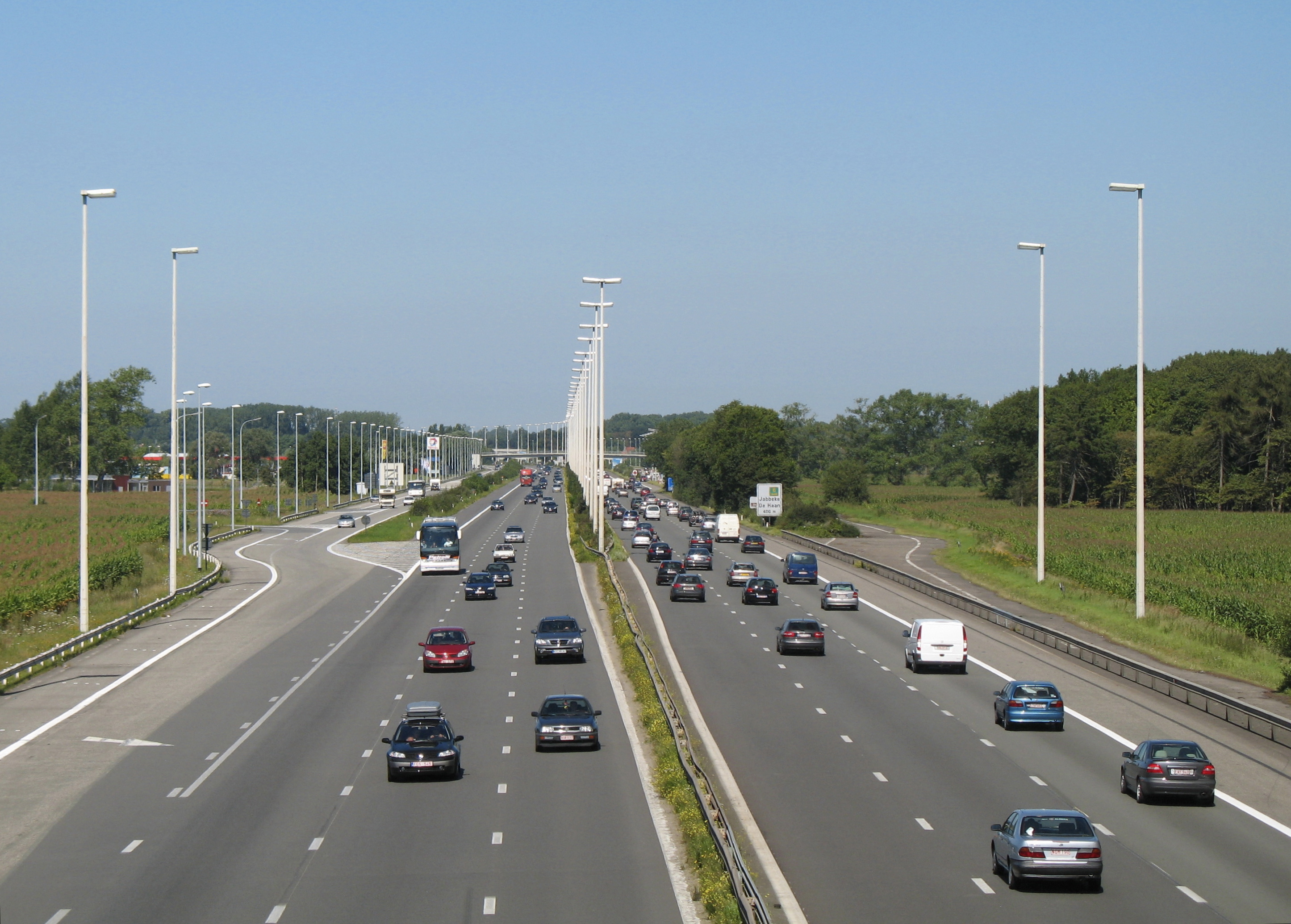 E40 highway at Jabbeke, Province of West Flanders, Belgium